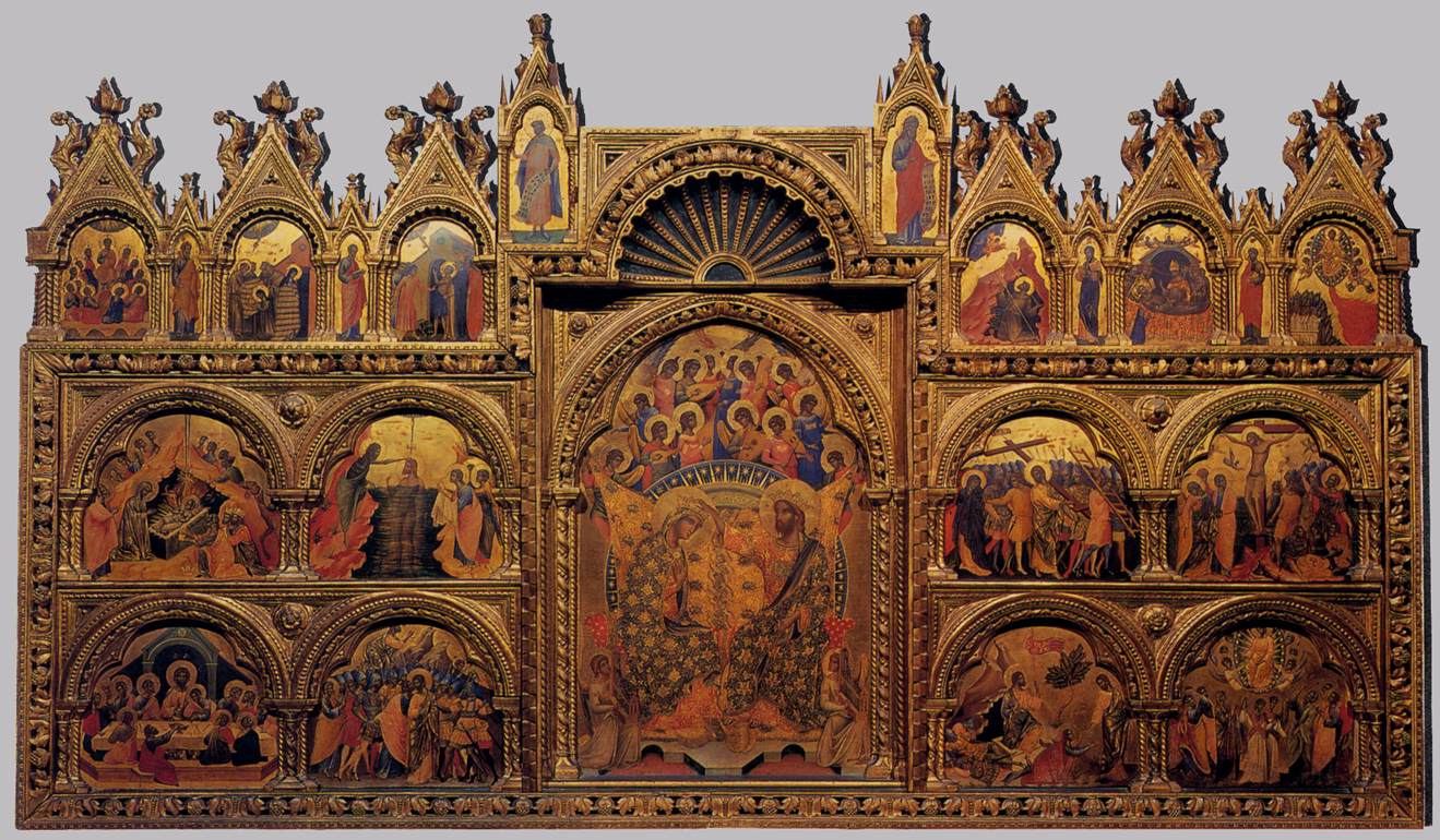 central panel: The Coronation of the Virgin 2x4 Scenes from the life of Christ at the sides: On the left are 'Adoration of the Magi', 'Baptism of Jesus Christ', 'Last Supper' and 'The Prayer in the Garden and the Arrest of Christ'; on the right are 'The Journey to Calvary', 'The Crucifixion', 'The Resurrection, the encounter with Mary Magdalene and 'The Ascension'.In the Crowning are Scenes from the life of Saint Francis and other Saints, from left: Pentecost, St John, St. Clare taking her veil, St. Francis, St. Francis leaving bis clothes to his father; in the upper crowning are the prophets Eliah and Daniel